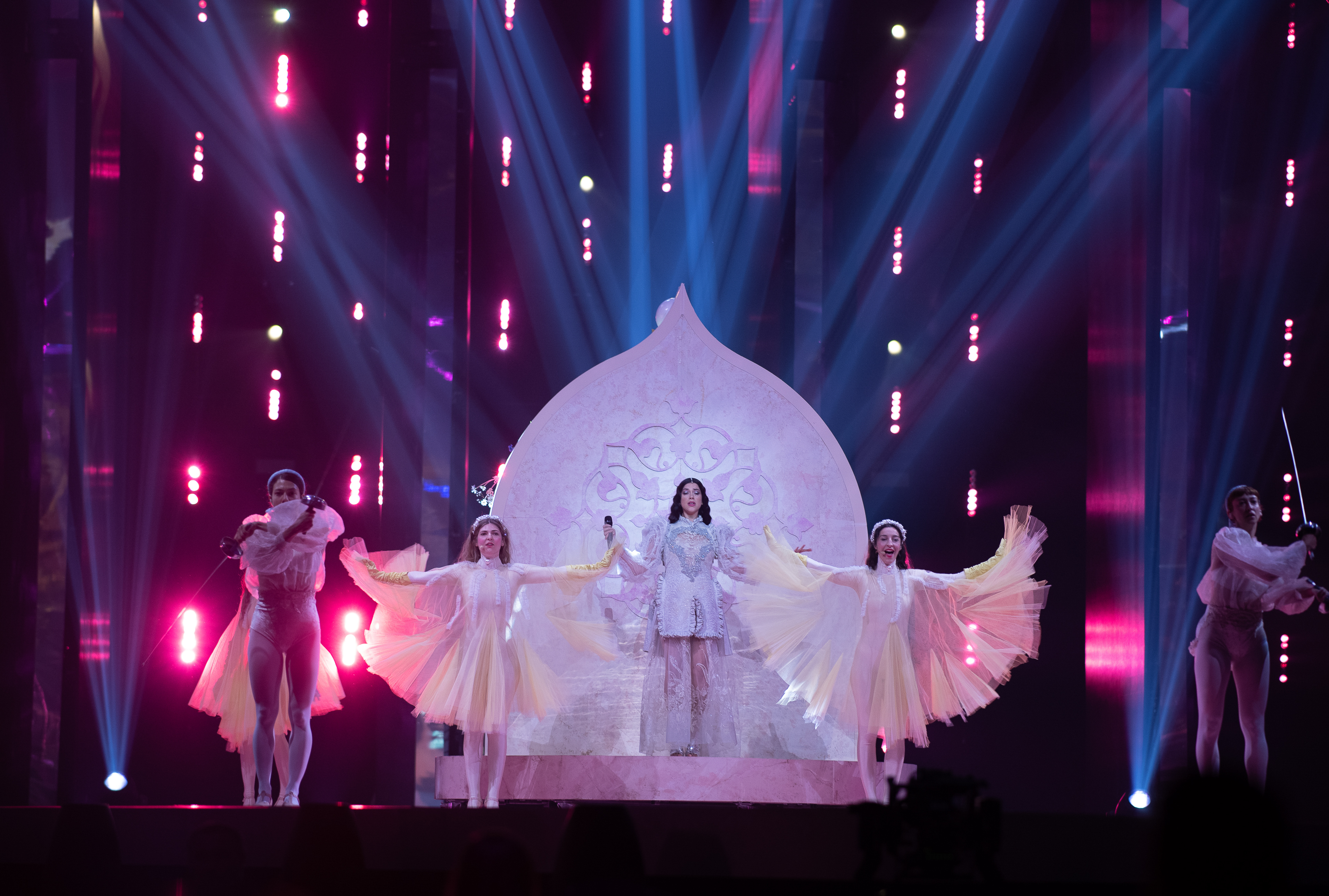 Katerine Duska at the 2019 Eurovision Song Contest Grand Final Dress Rehearsal